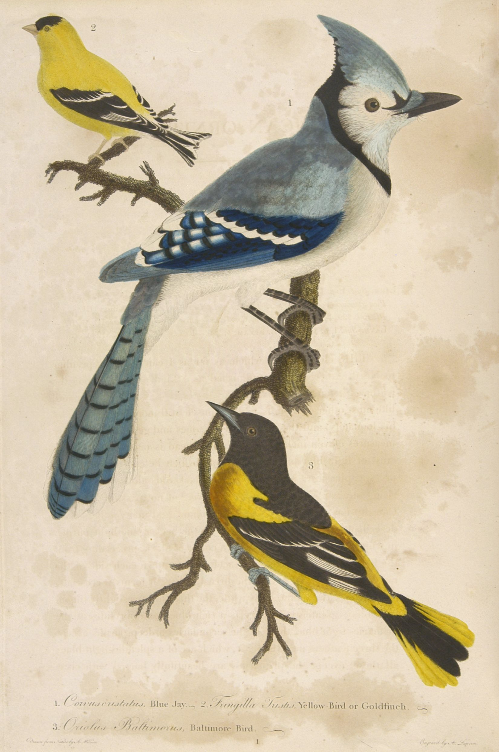 Blue Jay, Yellow Bird or Goldfinich, Baltimore Bird